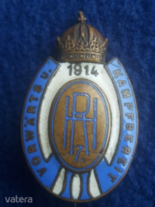 7-huszárezred-sapkajelvénye